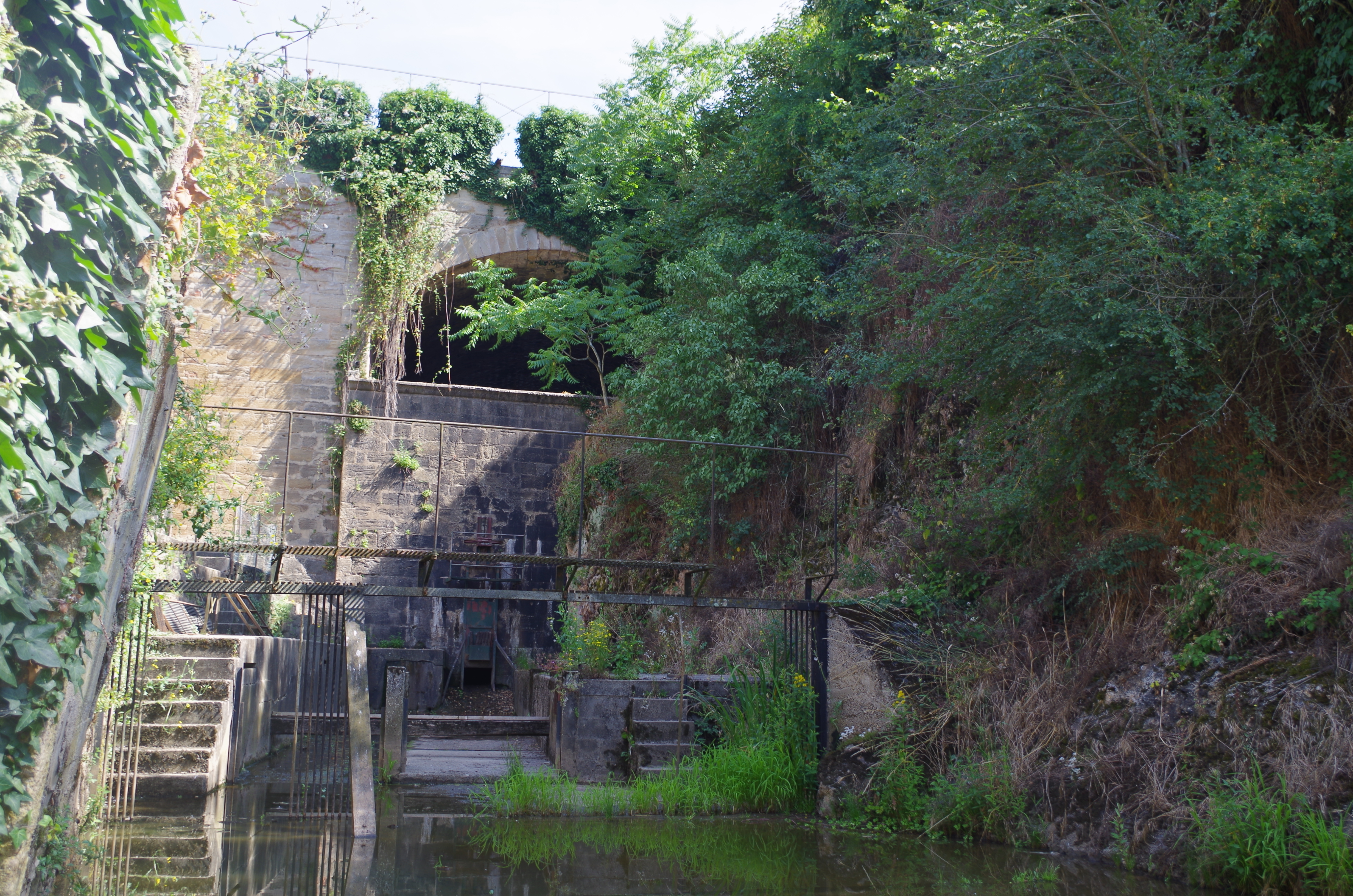 Fish gallery. Bourbon l'archambault lake